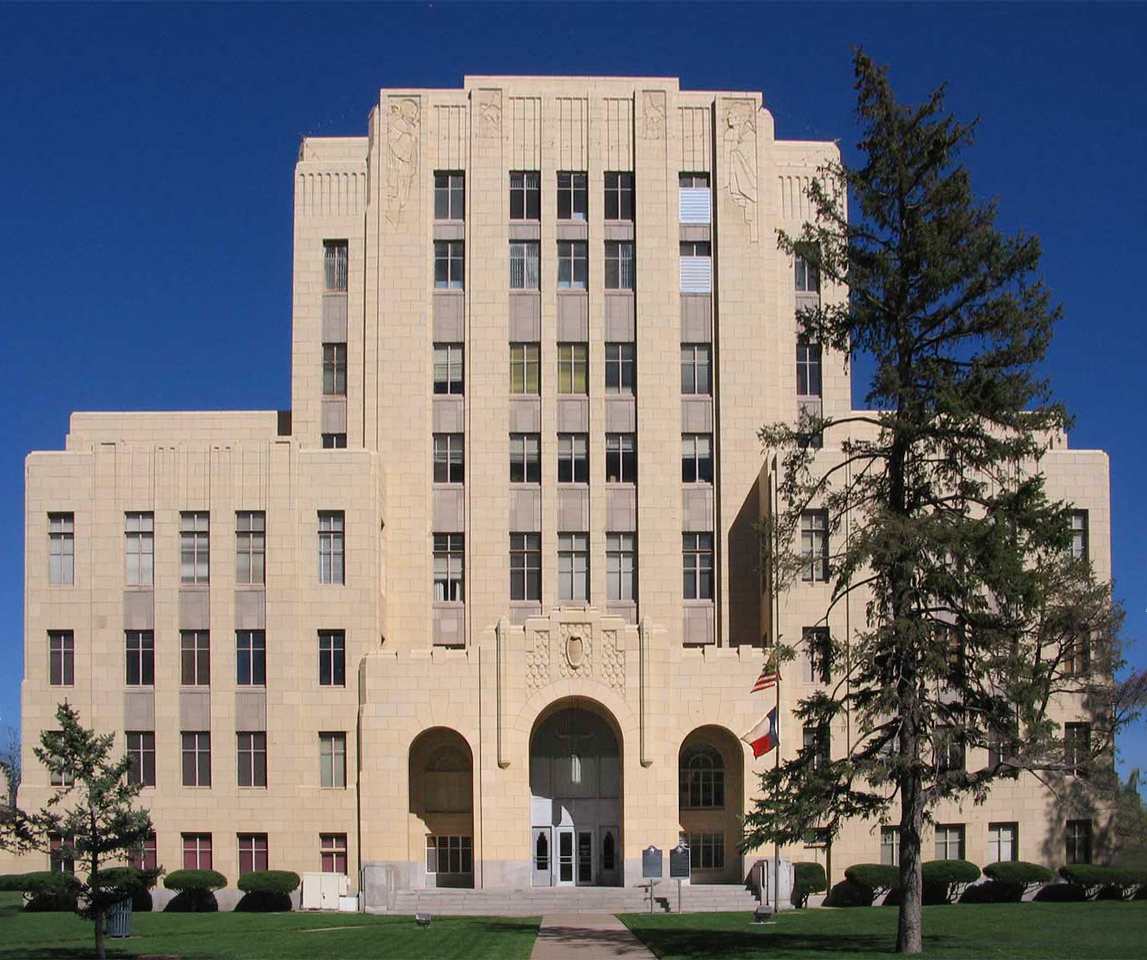 The Potter Courthouse building in downtown Amarillo, Texas, U.S.A. This courthouse lies along Fillmore St. once signed as Route 66. The building was added to the National Register of Historic Places on August 22, 1996.